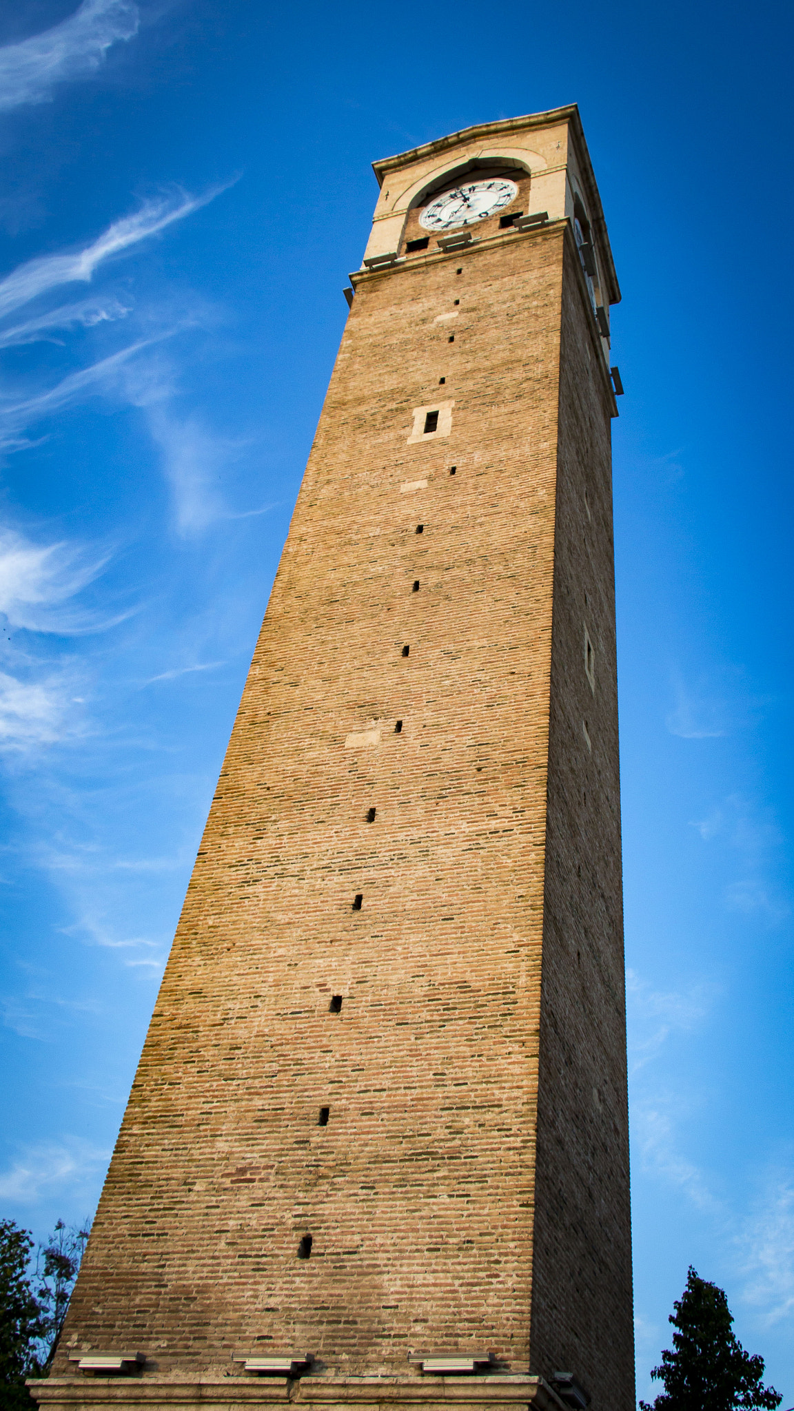 500px provided description: Büyük Saat